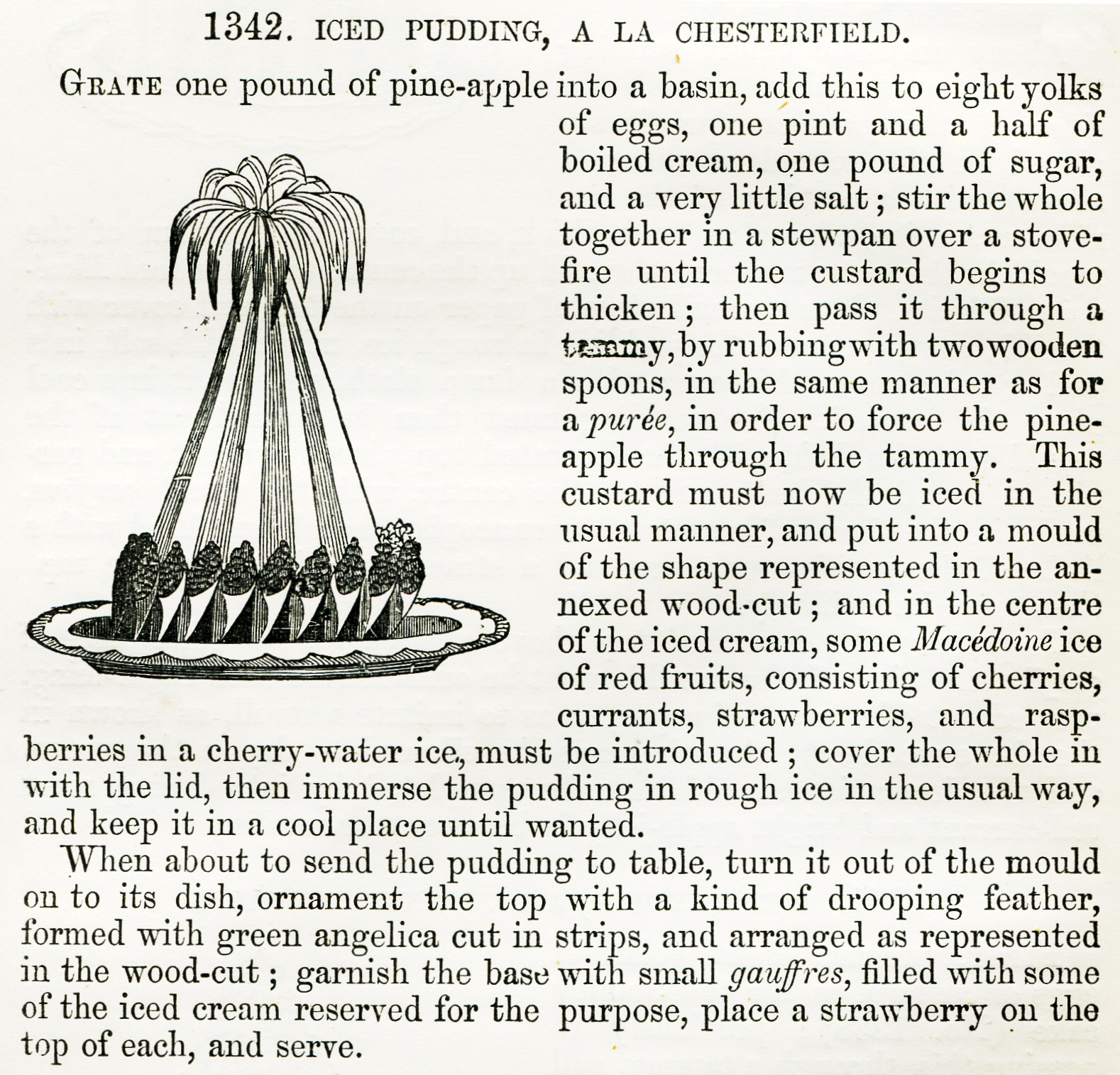 "Iced Pudding a la Chesterfield". Engraving from Charles Elmé Francatelli's The Modern Cook. 28th edition, 1886